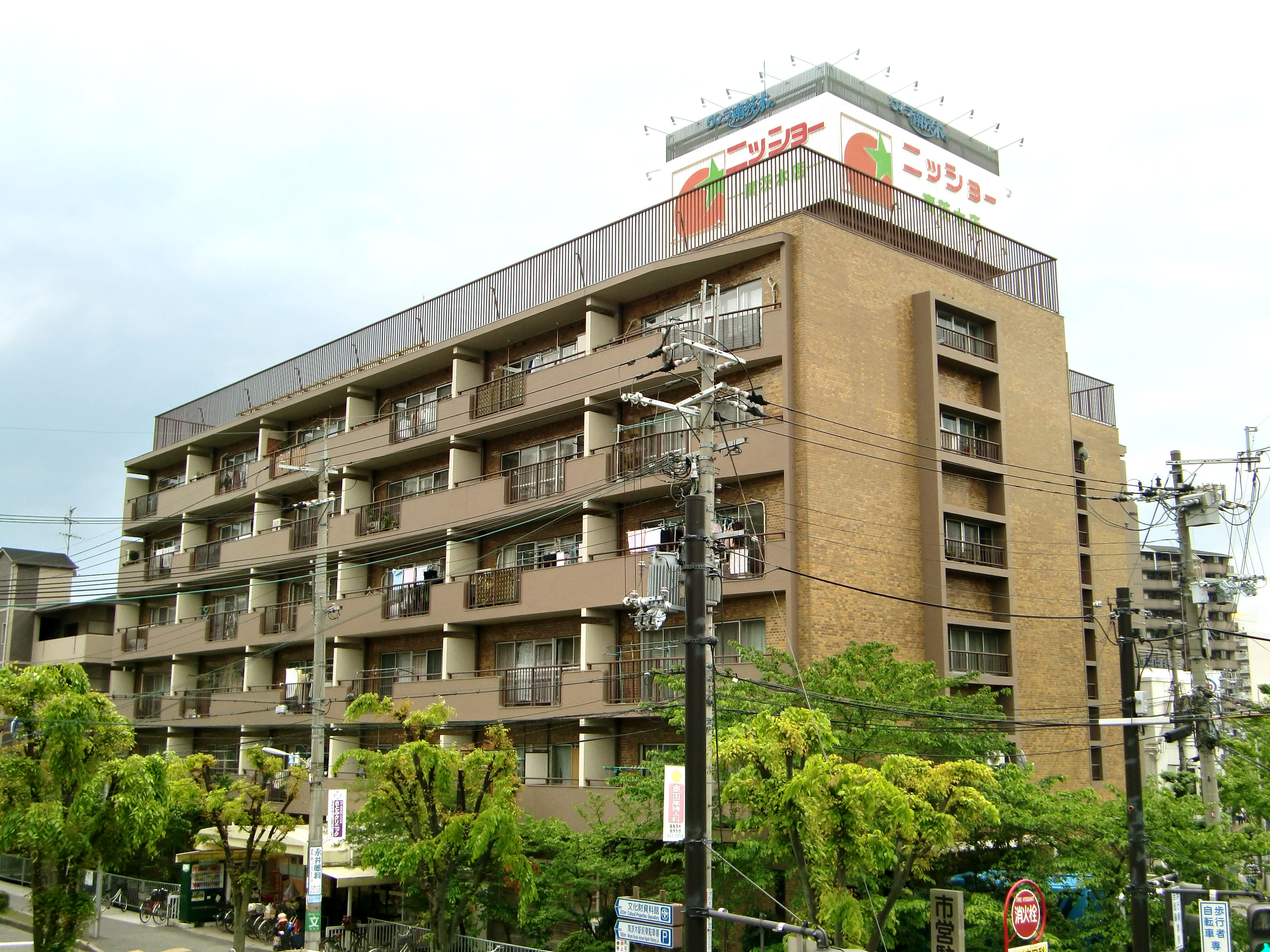 Hankyu Nissho Store Minamiibaraki,Higashinara Ibaraki-city Osaka Japan.